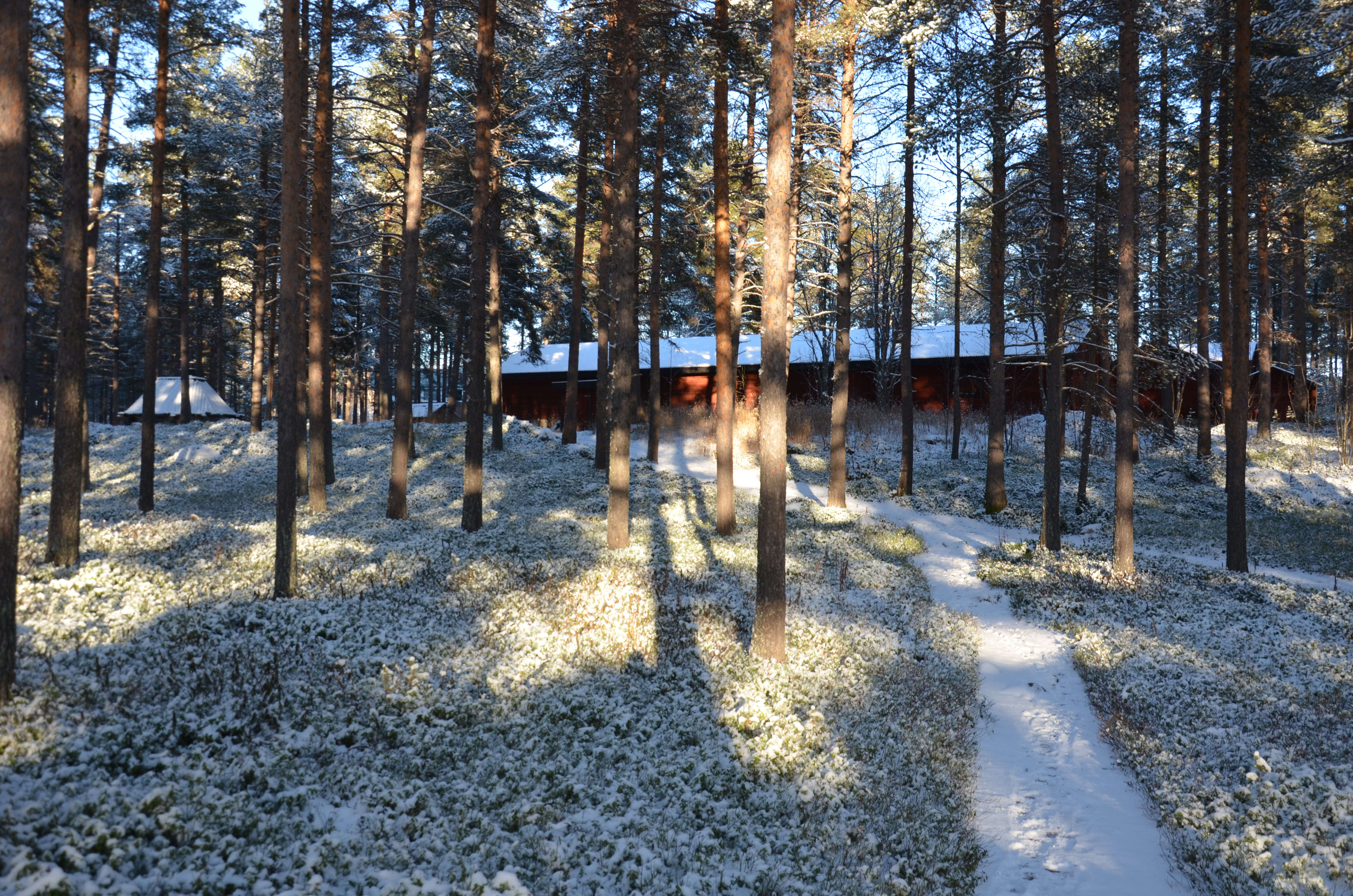 Gamla marknadsplatsen i Jokkmokk, från söder. I bakgrunden hembygdsgårdens lada